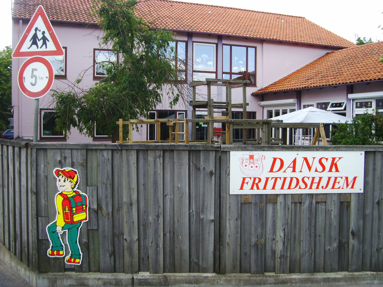 Danish after-school centre in Slesvig (de: Schleswig).